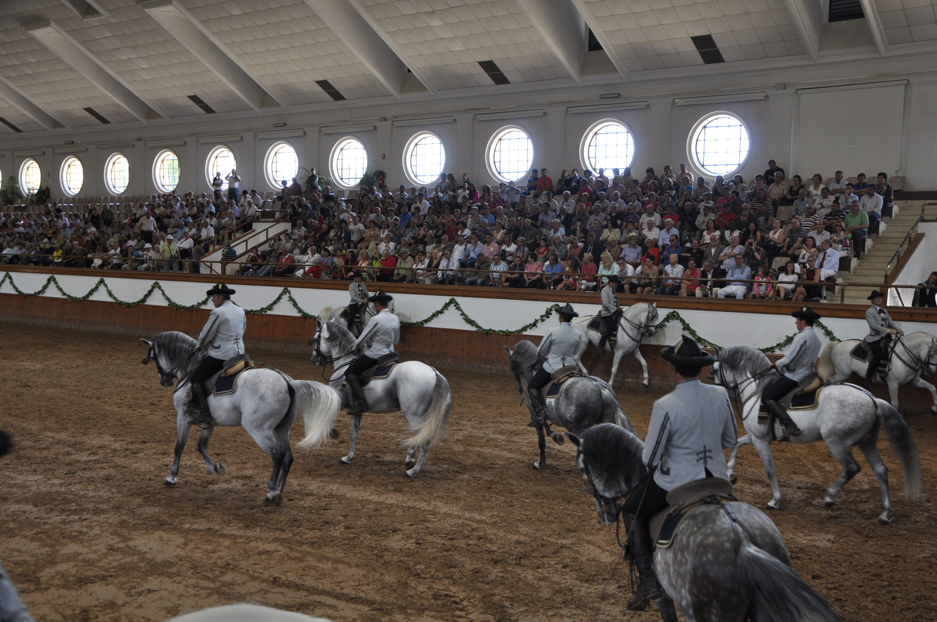 Royal Andalusian School of Equestrian Art 2